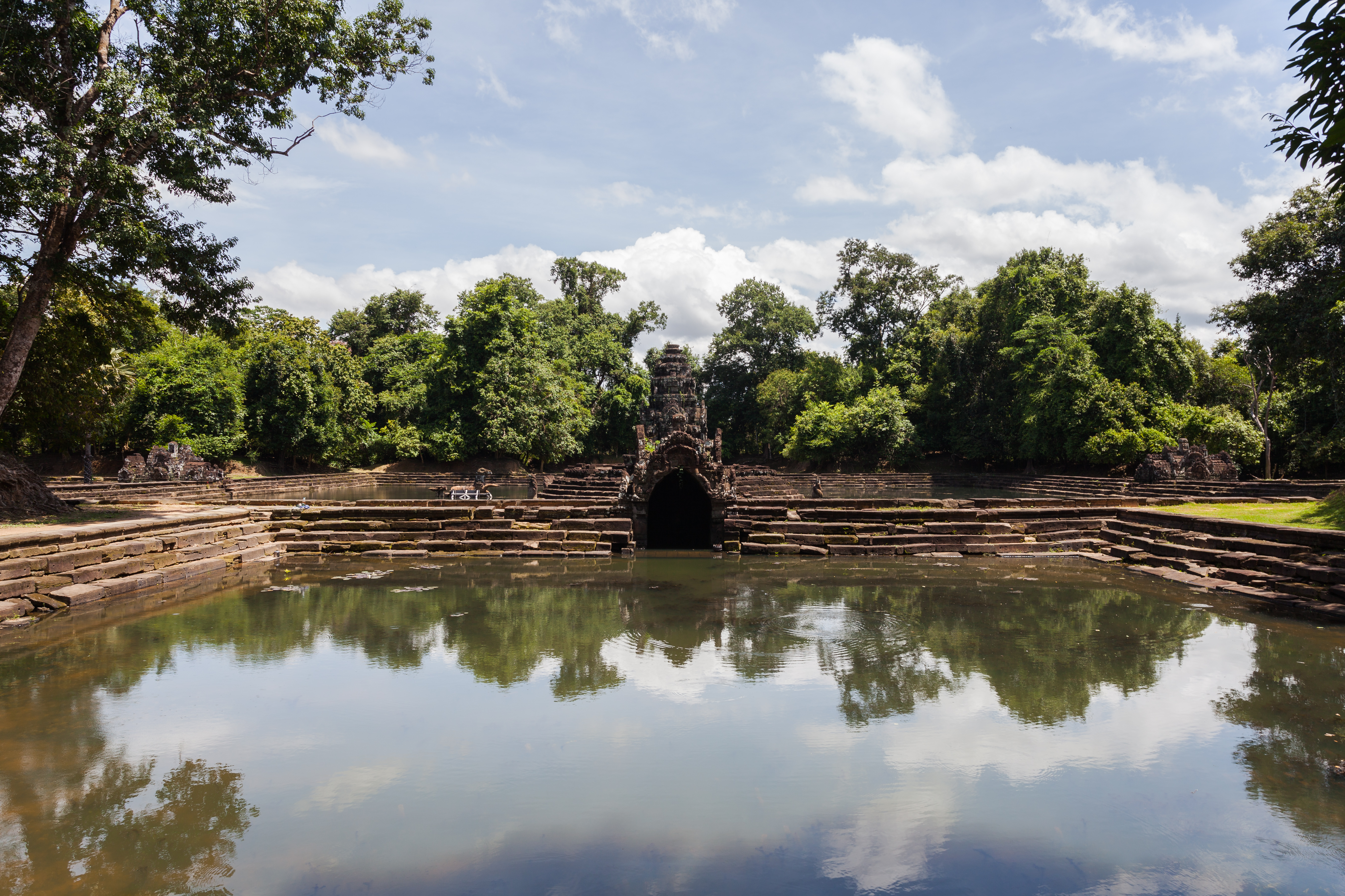 Neak Pean, Angkor, Cambodia